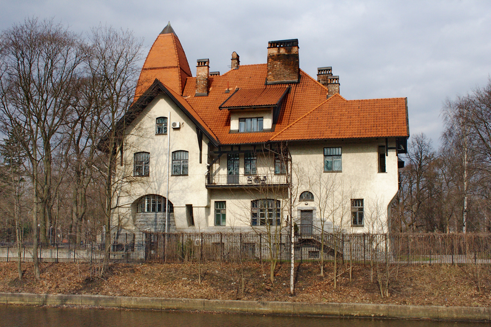 Consulate-General of Denmark in Saint Petersburg - Saint Petersburg. Stone island. (Follenweider's private residence, 1905).